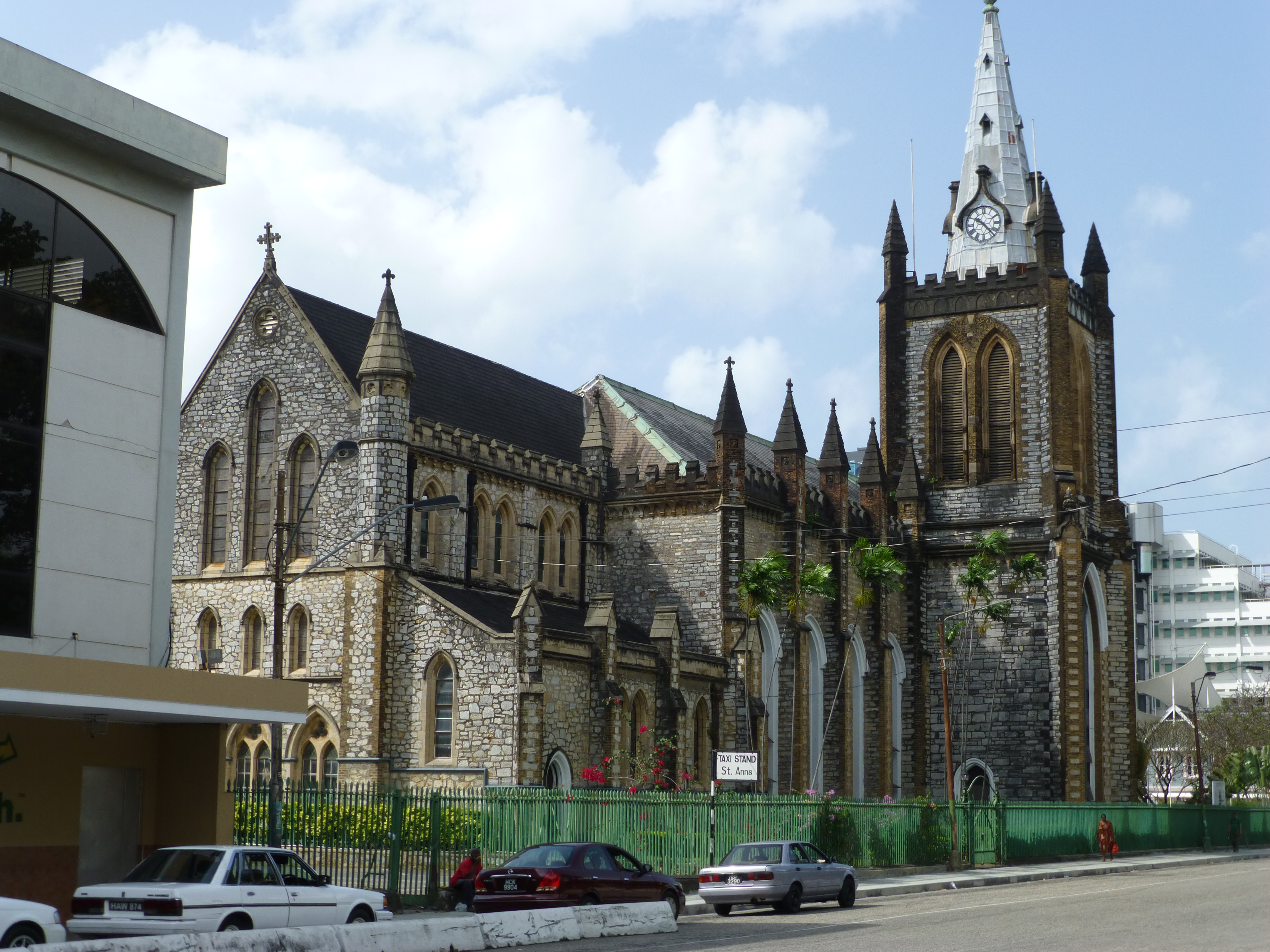 Rear view of the Cathedral of the Holy Trinity — in Port of Spain, Trinidad and Tobago.